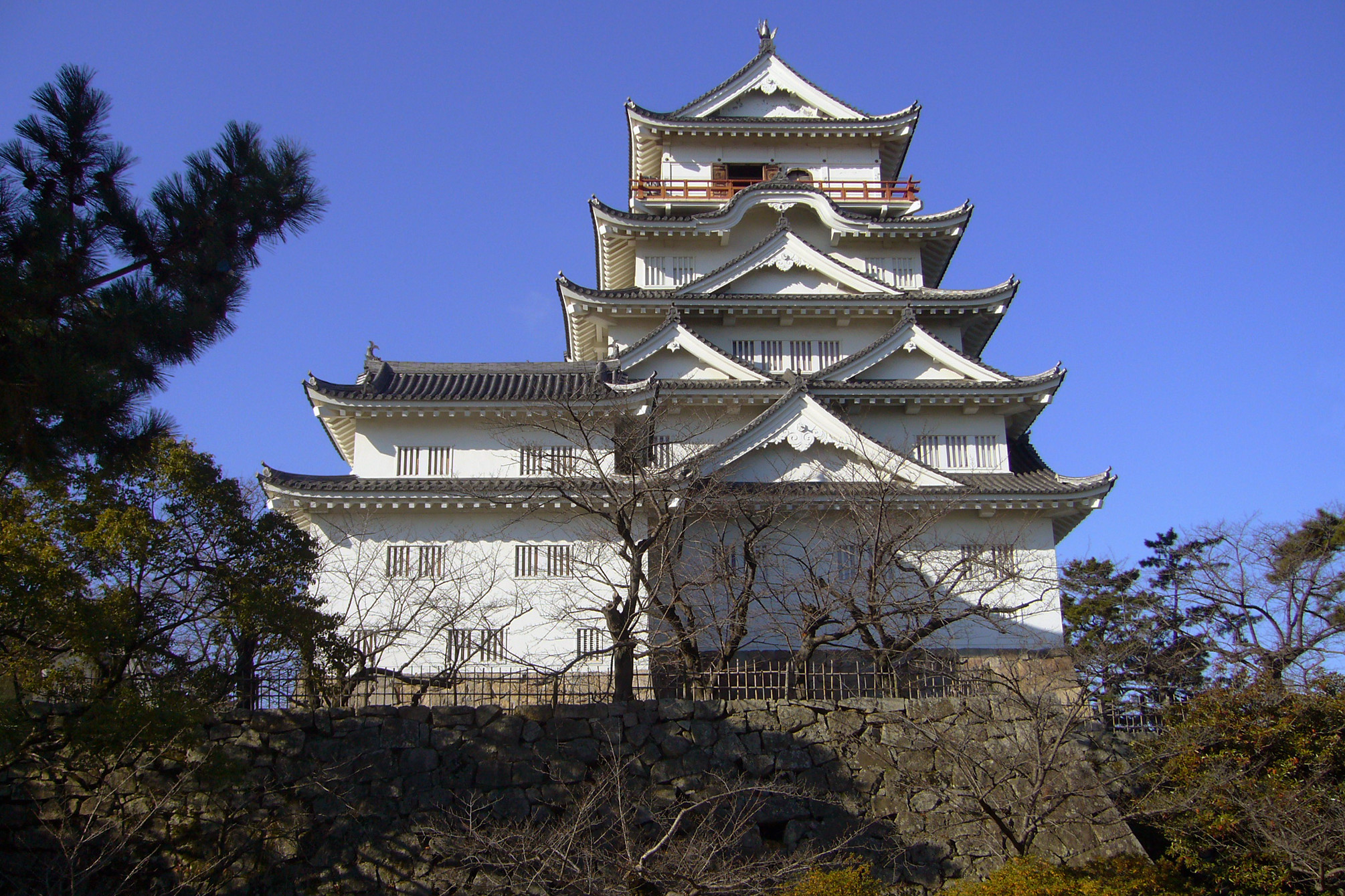 Fukuyama Castle "Tenshu" in Fukuyama, Hiroshima prefecture, Japan